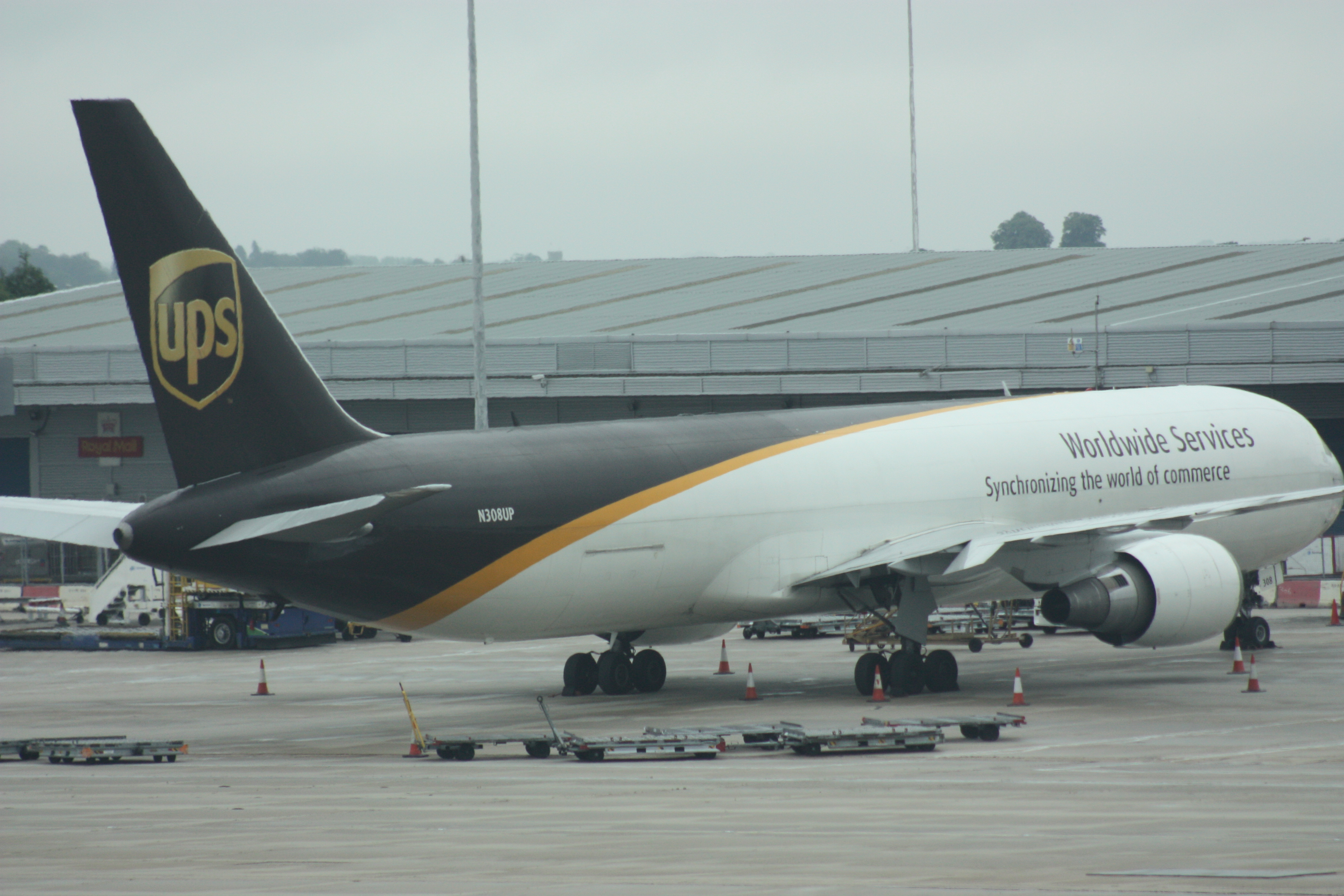 United Parcel Service (N308UP) Boeing 767-300F aircraft, London Stansted Airport, Essex, England, July 2010. Other photographs in this sequence : File:UPS (N308UP), Stansted, July 2010 (02).JPG